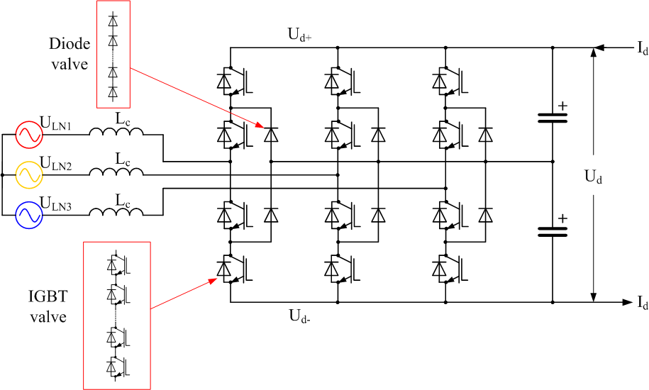 Three-phase, three-level diode-clamped (neutral-point clamped) voltage source converter for HVDC